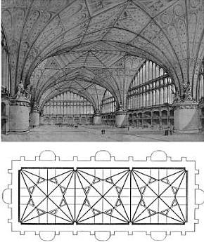 Alternate design for the Galerie des Machines of the 1889 Paris Universal Exposition, published by Anatole de Baudot in 1905.